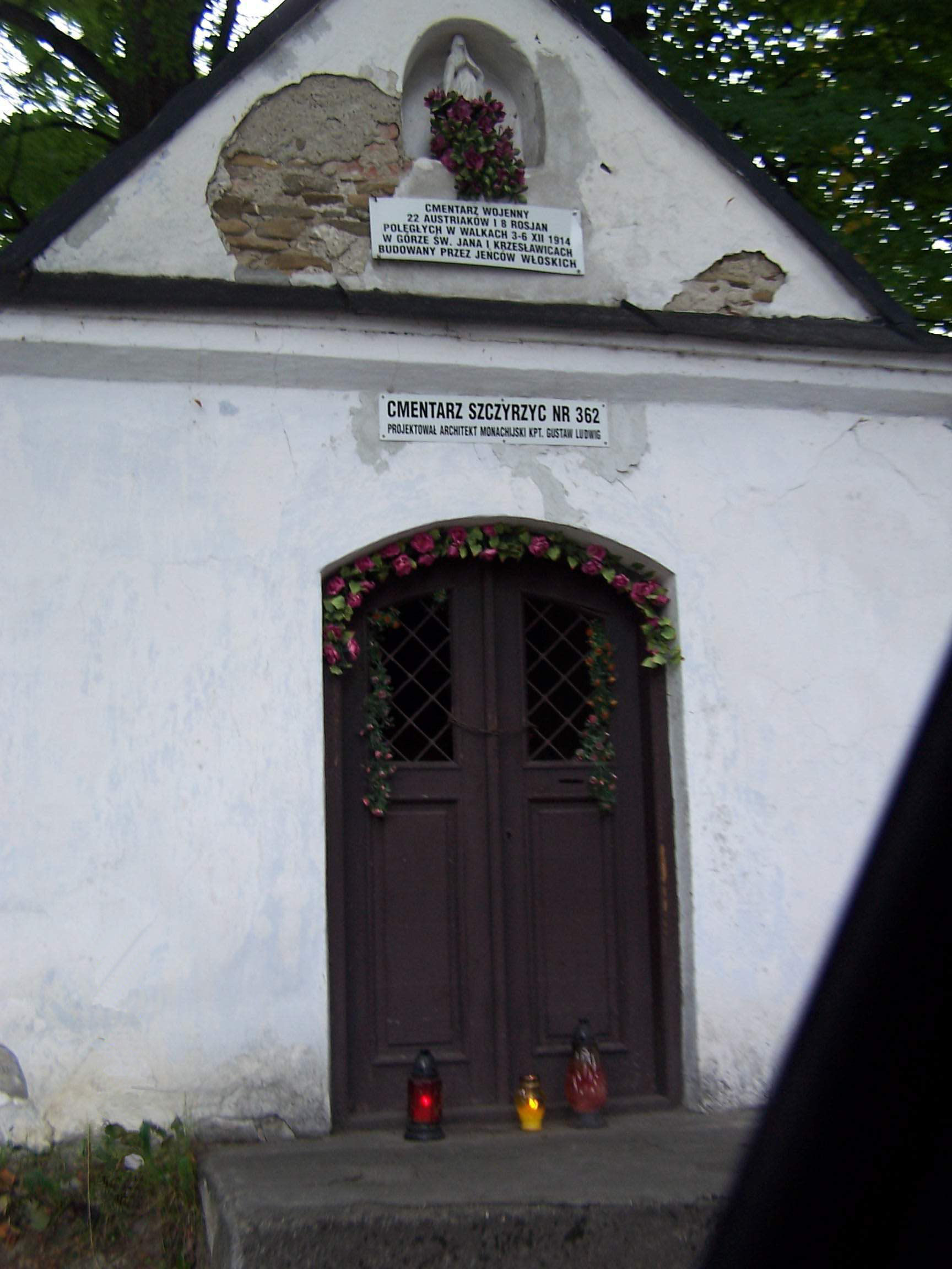 Chapel in Szczyrzyc. Behind it there is a small cemetery; the placard on the chapel states: war cemetery of 22 Austrians and 8 Russians who died on 3-6 XII 1914 during the battles around Krzesławice and Góra Świętego Jana, built by Italian prisoners. Second placards states: Cemetery Szczyrzyc no 362. Designed by Monachian architec cpt. Gustaw Ludwig. Photo by Piotrus. // "There is no date" (Kangel 16:33, 14 January 2007 (UTC)) //